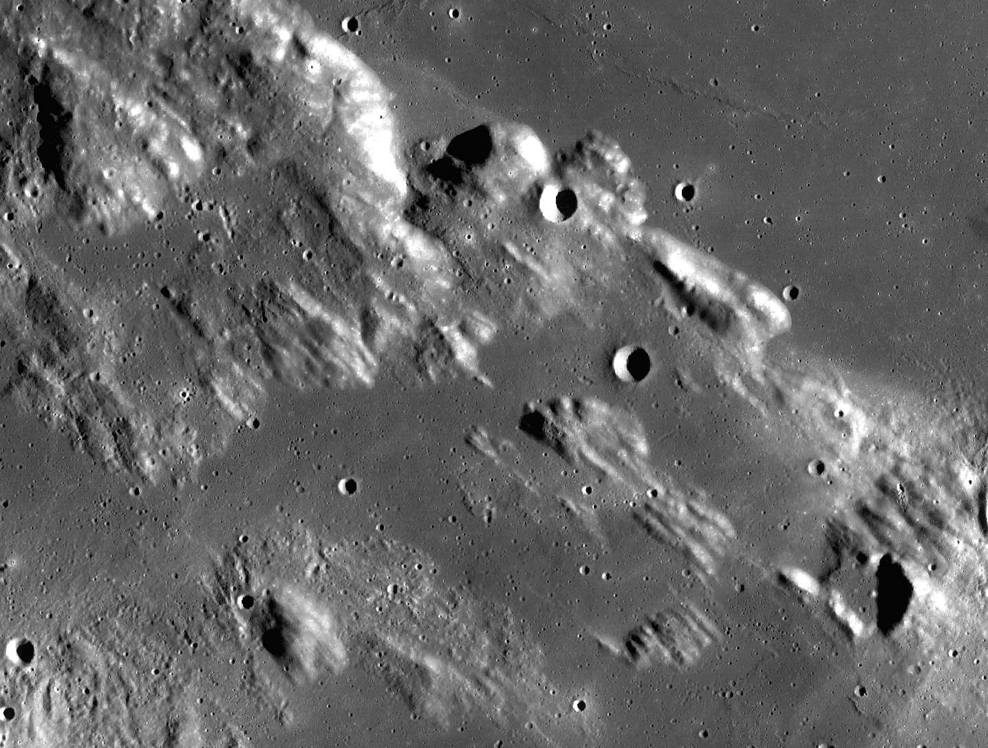 Imbrium sculpture on the Moon (relief of ridges and valleys, running radially from the basin of Mare Imbrium, formed due to falling of its ejecta). This region is situated in Montes Haemus, near southwestern edge of Mare Serenitatis; it is one of the most prominent examples of such relief, observable from Earth (Hartmann 1964, p.5). The crater in lower right is Daubrée. The image is a mosaic of photos by Lunar Reconnaissance Orbiter, made with Wide Angle Camera. Size of the image is 170×130 km, north is up.